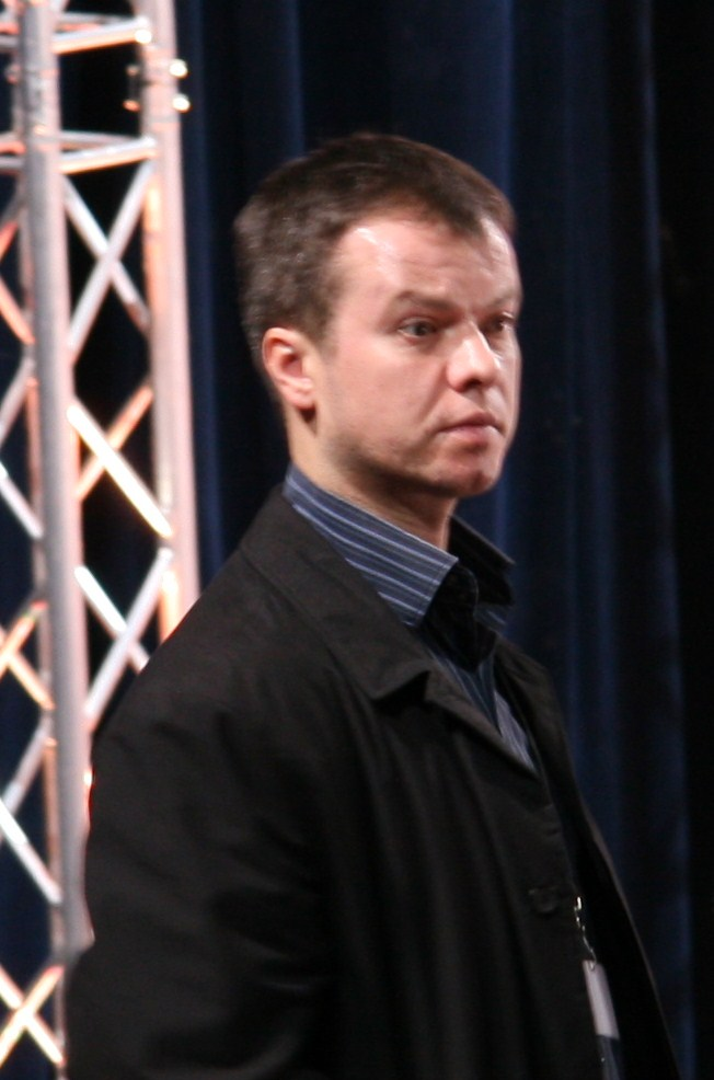 Igor Pashkevich at the 2010 Trophée Eric Bompard